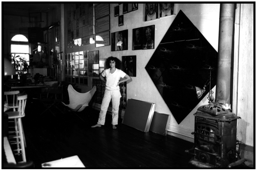 Barbara Rosenthal, Avant-garde Conceptual Artist, Existential Photographer, Video Artist, Media Poet, Performance Artist, in her studio at 727 6th Avenue, New York City, March 10, 1994. Photo taken by experimenal filmmaker Bill Creston after Rosenthal's completion of her large nine-section diamond-shaped piece, "Swimmer in the Universe / Scientists Are the Priests and Prophets", shown at her left.